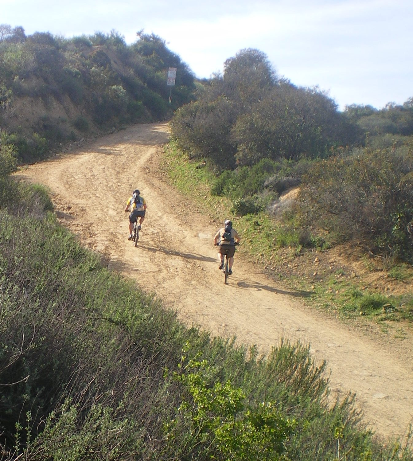 Mountain Bikers approaching unpaved section of Mulholland Drive, in Marvin Braude Mulholland Gateway Park. Above Tarzana in the Santa Monica Mountains National Recreation Area.